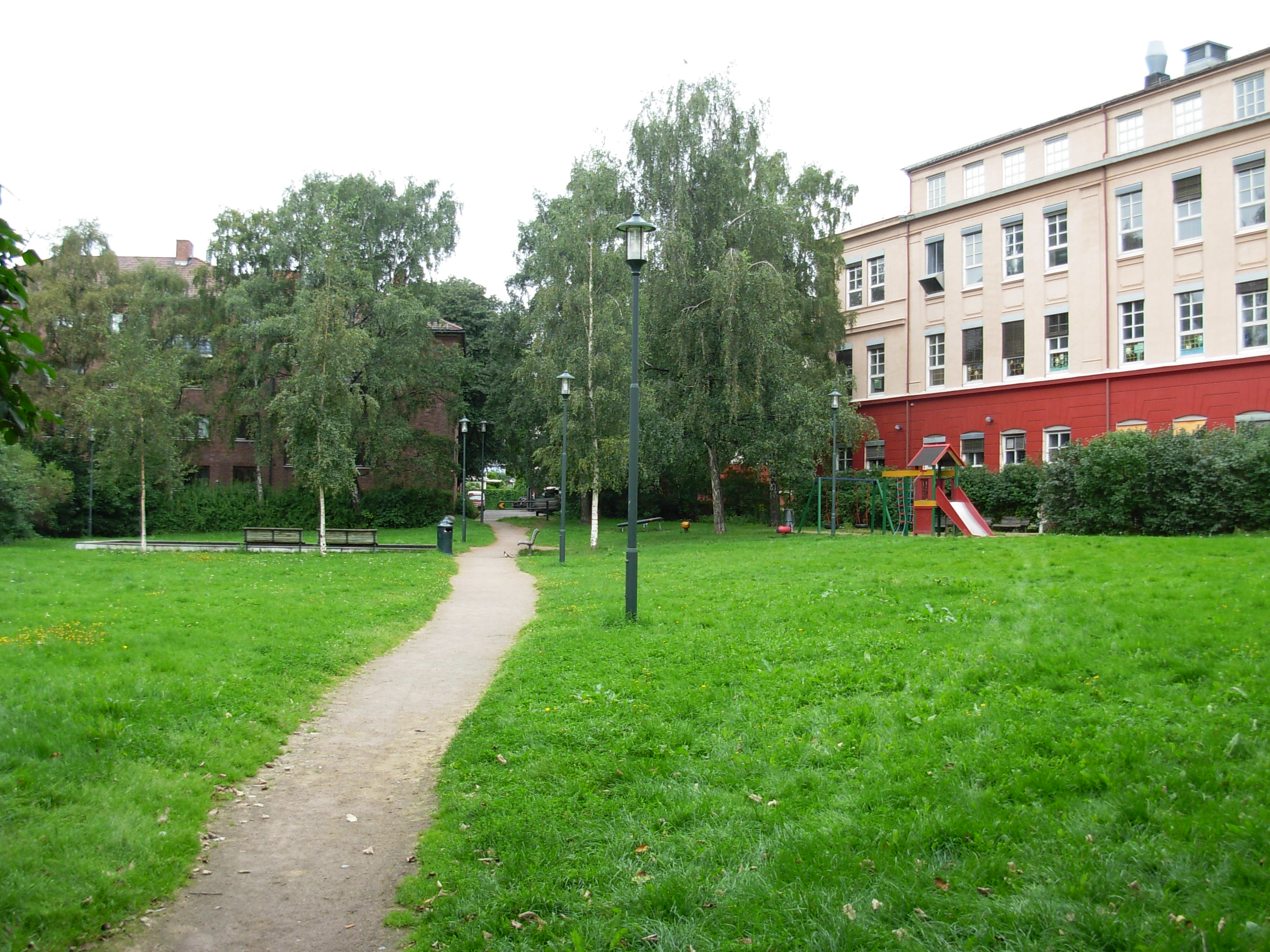 Bülow Hanssens plass, Oslo, Norway